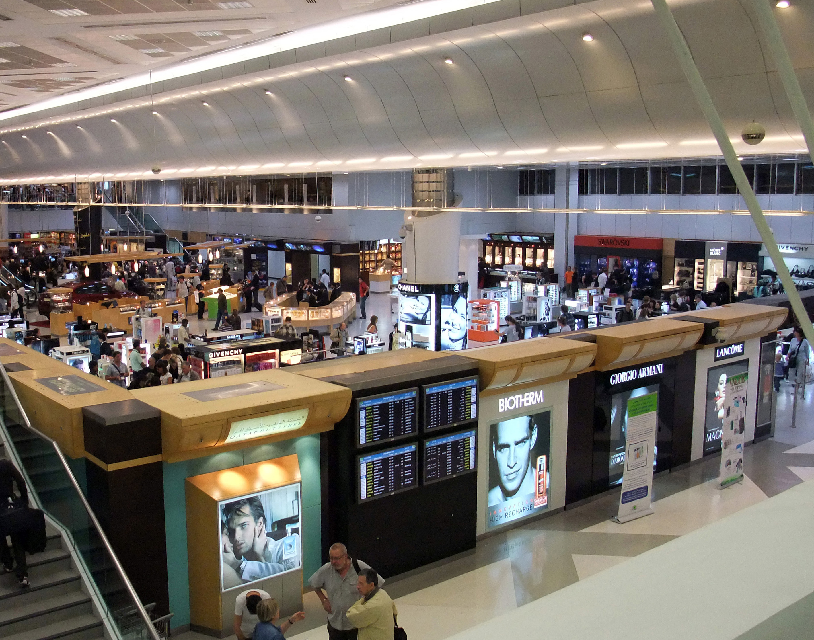 duty free zone of the transfer terminal in Doha International Airport